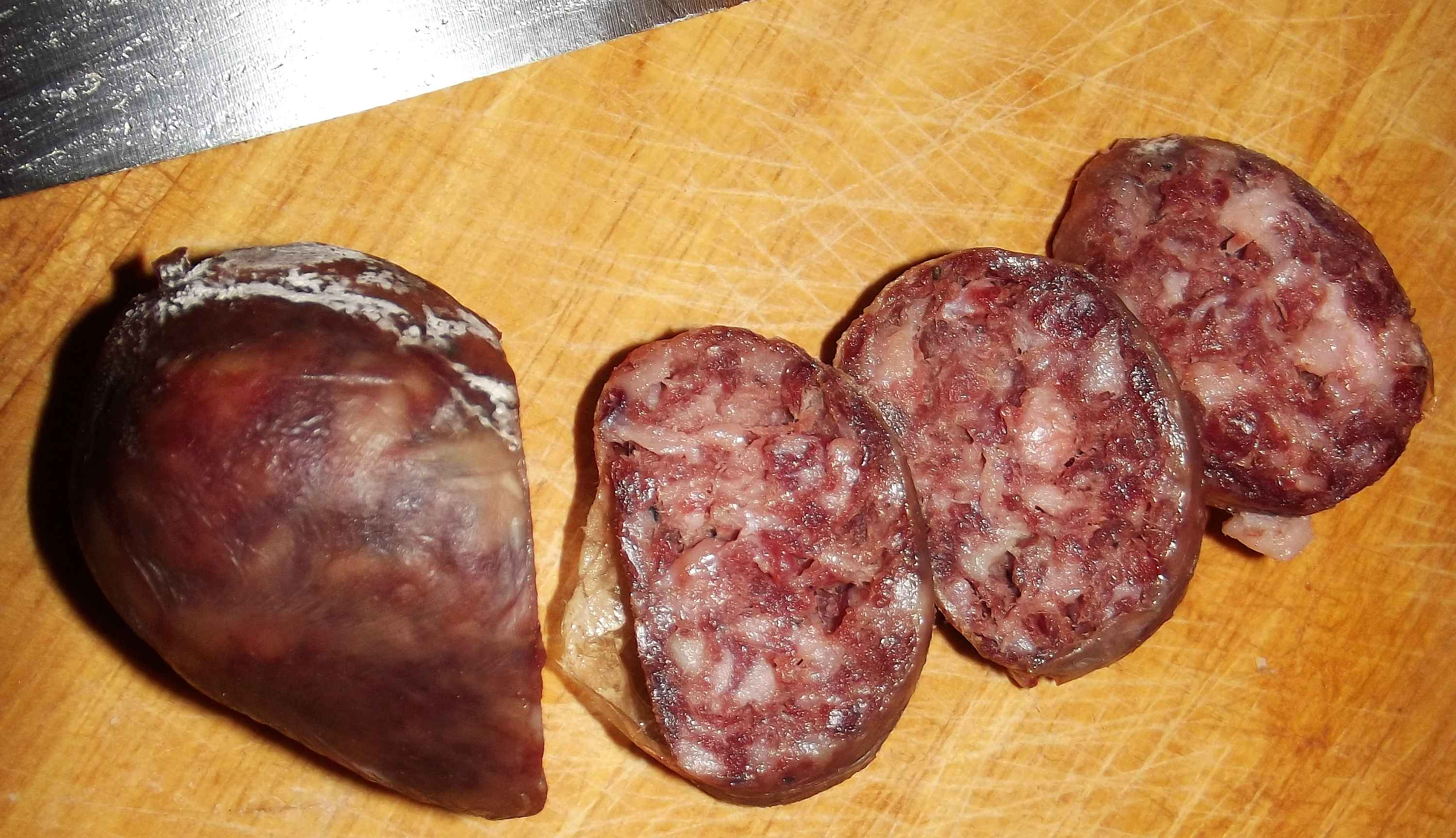 Sliced liver mortadella (Piedmont traditional cold cut)